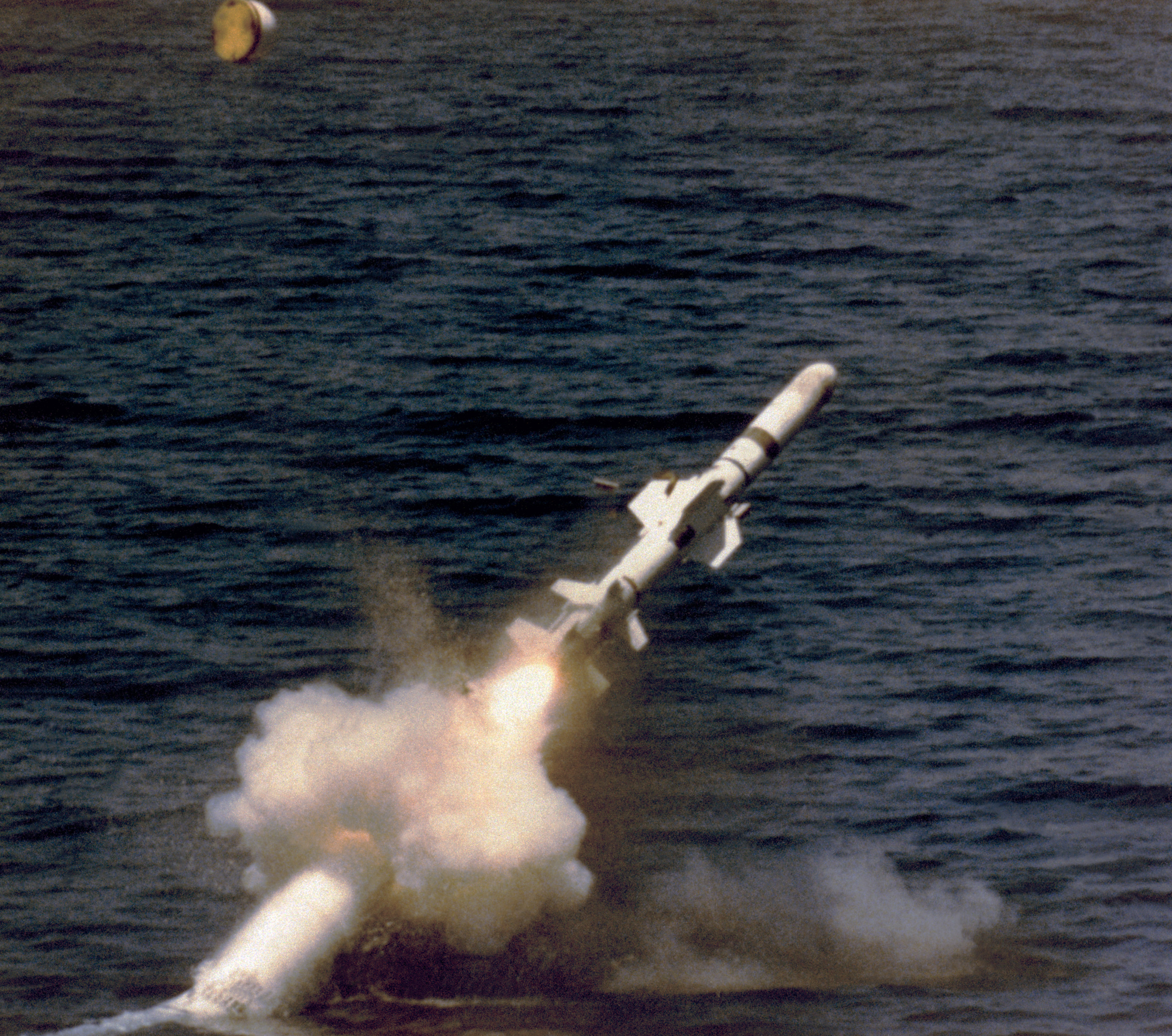 A view of an encapsulated UGM-84 surface-to-surface Harpoon missile leaving the capsule as it clears the surface of the water, after being launched from a submarine near the Pacific Missile Test Center, California.